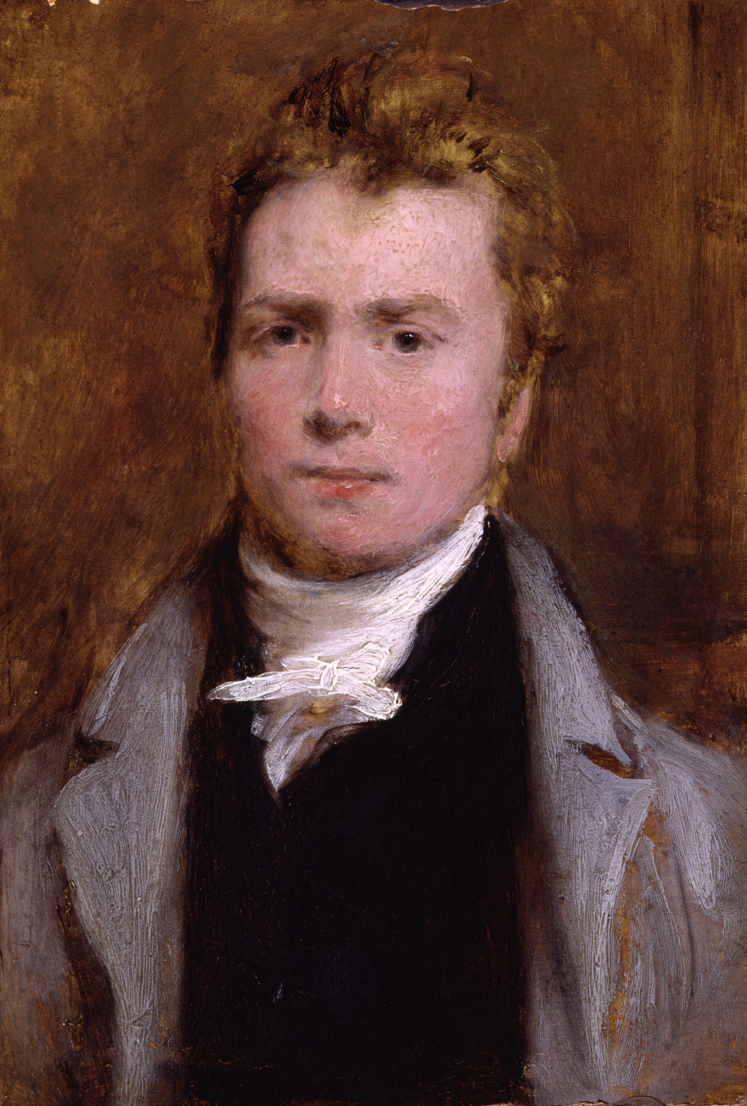 Sir David Wilkie, by Sir David Wilkie (died 1841). All images in this batch have been confirmed as author died before 1939 according to the official death date listed by the NPG.